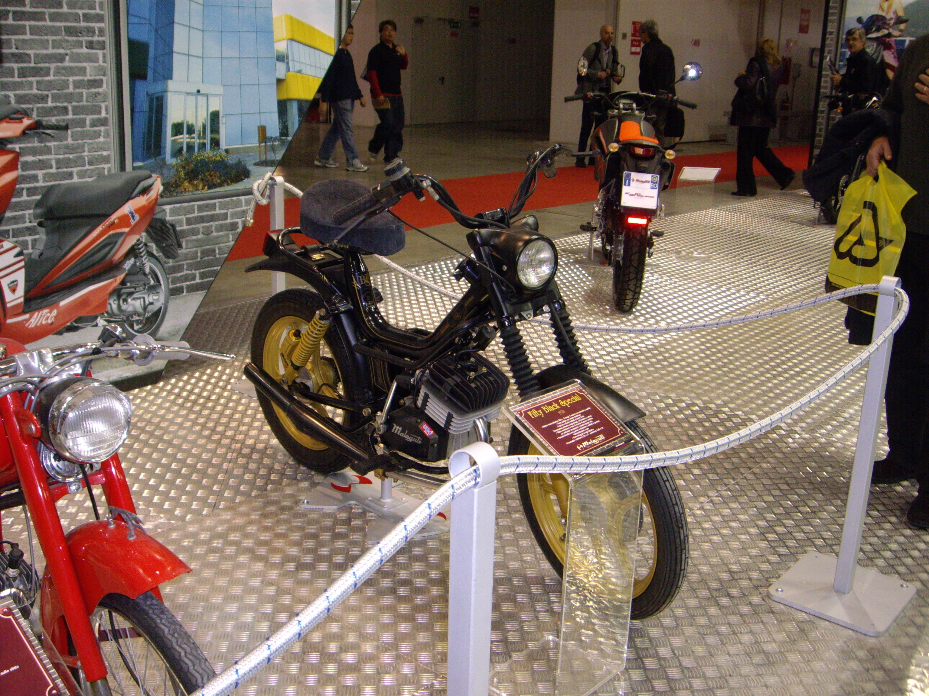 MALAGUTI Fifty Black Special 1978